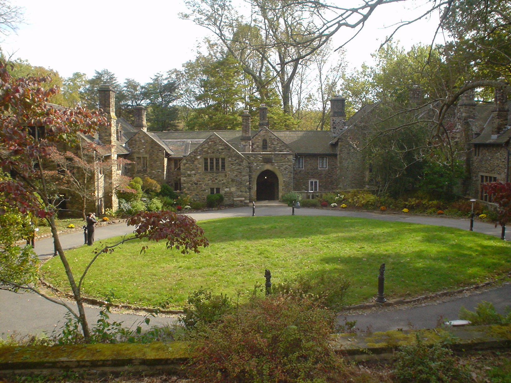 Mansion and Park Office at Ridley Creek State Park Pennsylvania. My own work, donated to the Public Domain.